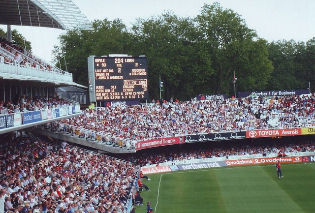 'Lords' or the Marylebone Cricket Club, London Cricket fans will know that England were playing the West Indies with the mighty Brian Lara and Chris Gayle playing in a one day international which Windies won. The photo is taken from the 'exclusive' Members End.... It helps if you have friends...